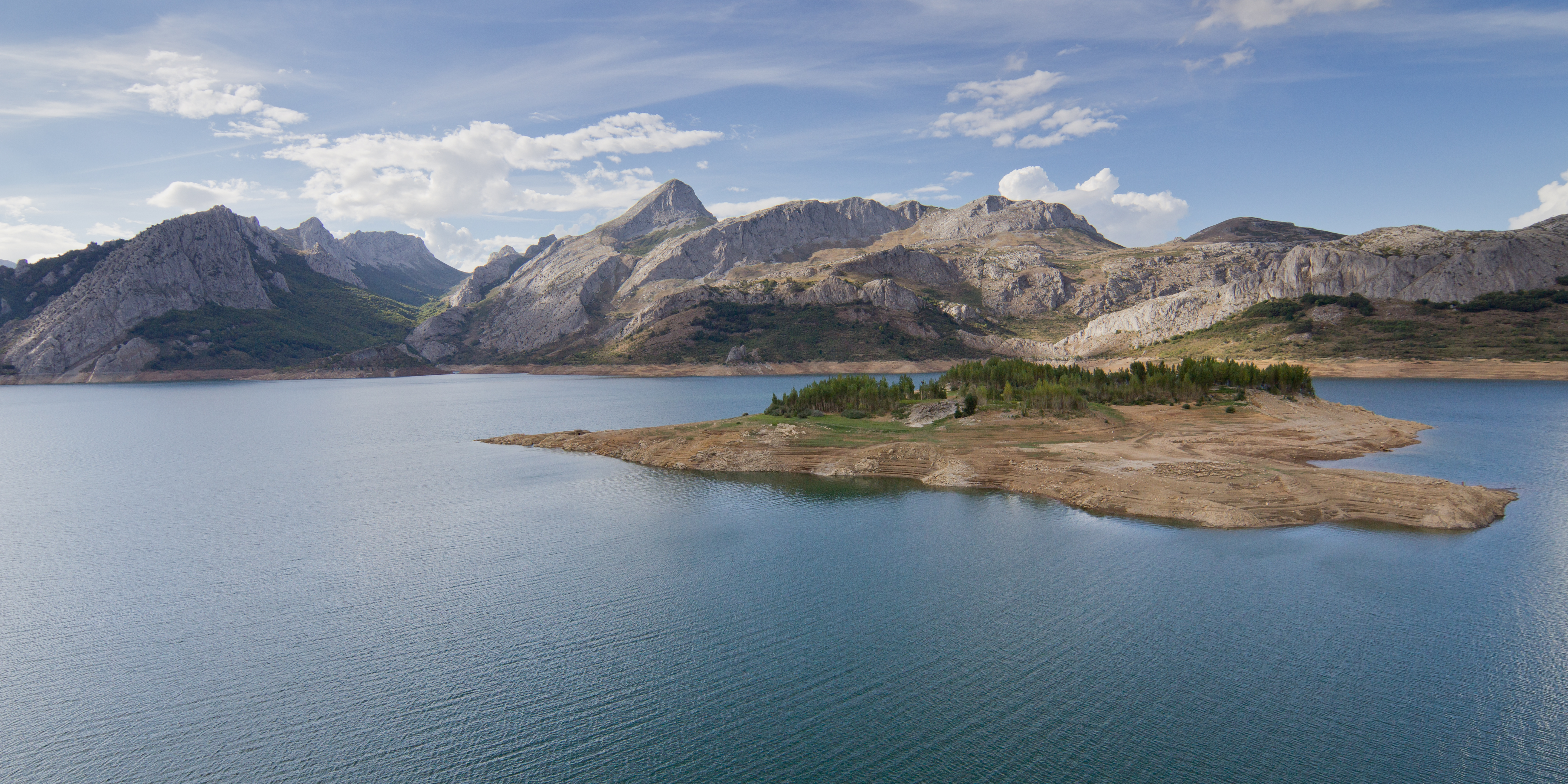 Riaño reservoir, León, Castile and León, Spain.